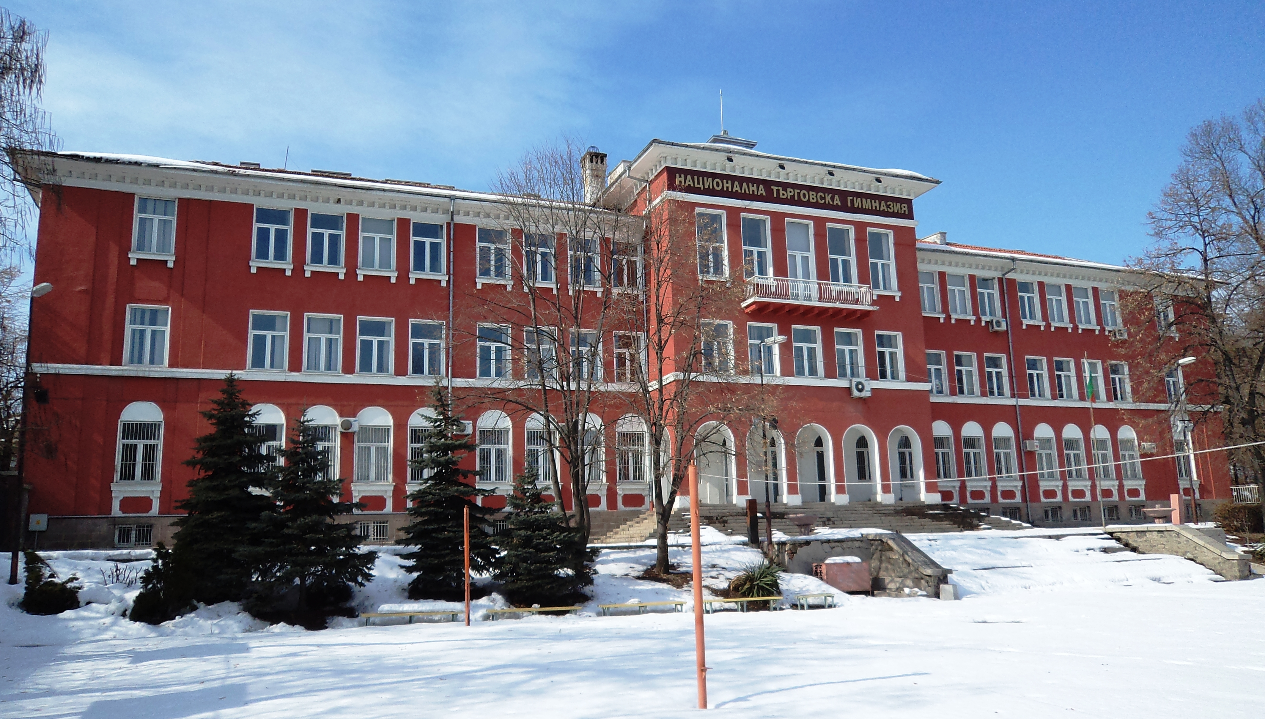 National High School of Commerce Plovdiv